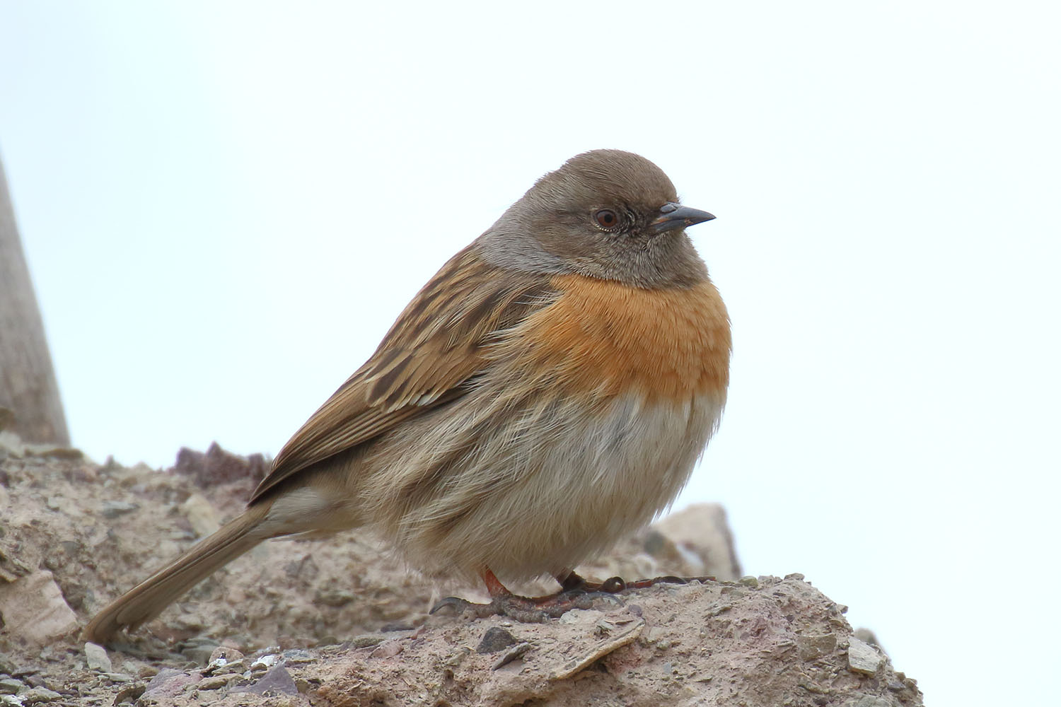 Robin accentor (Prunella rubeculoides) Hemis National Park Ladakh (India)